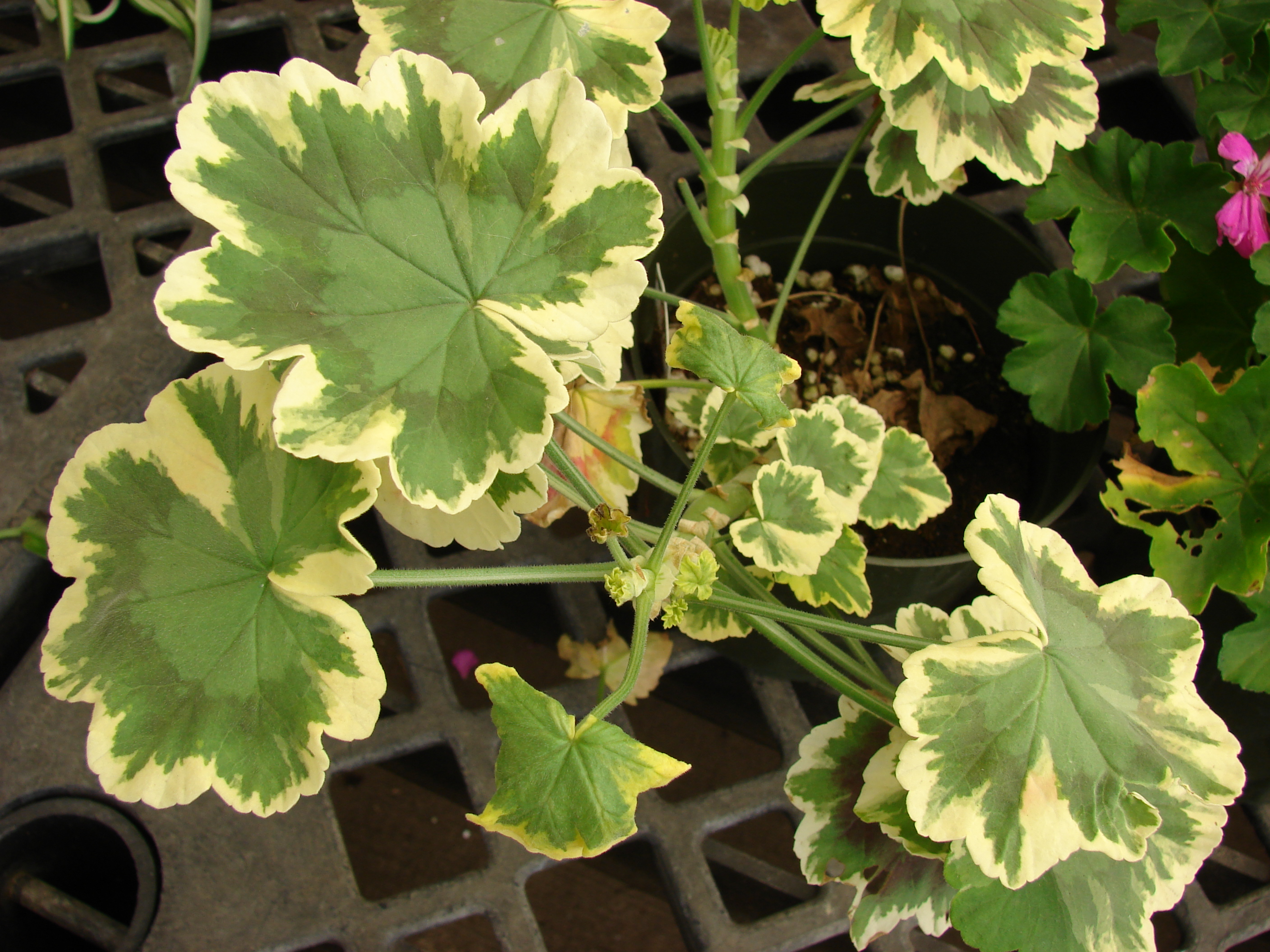 Pelargonium x hortorum (variegated leaves). Location: Maui, Walmart Kahului